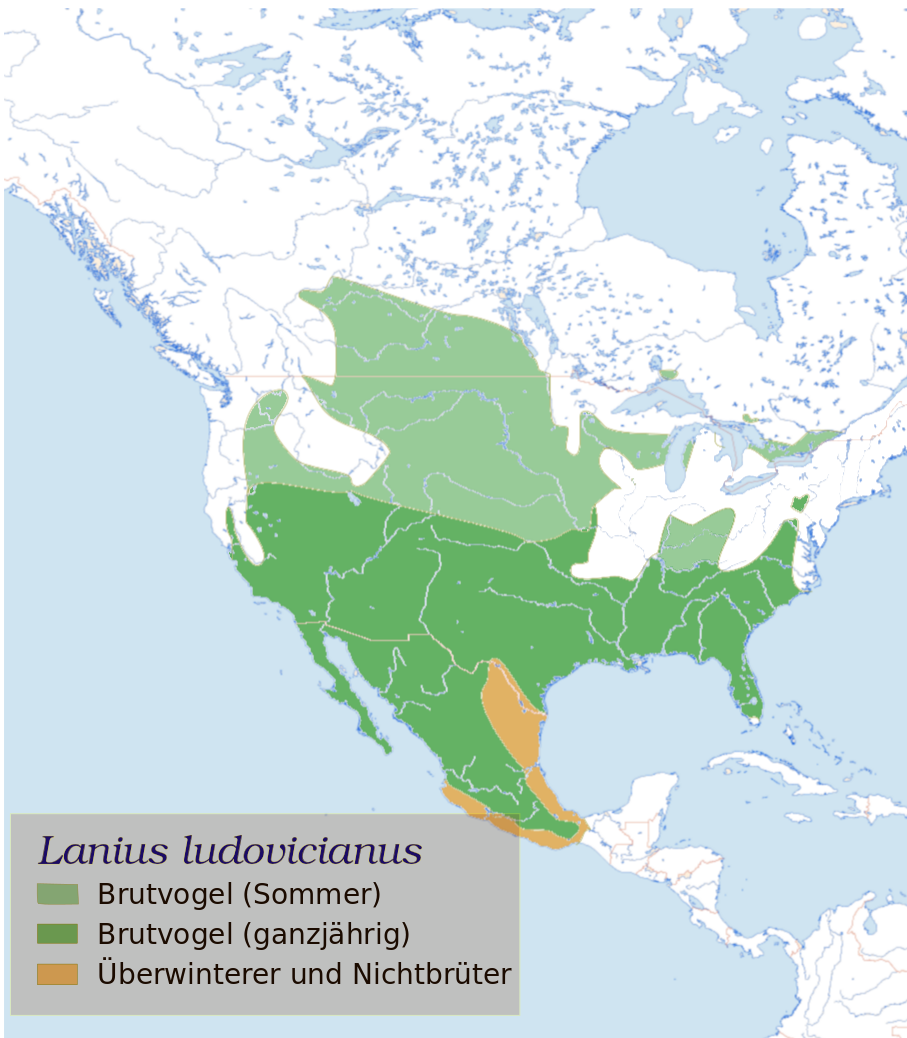 Lanius ludovicianus - distribution